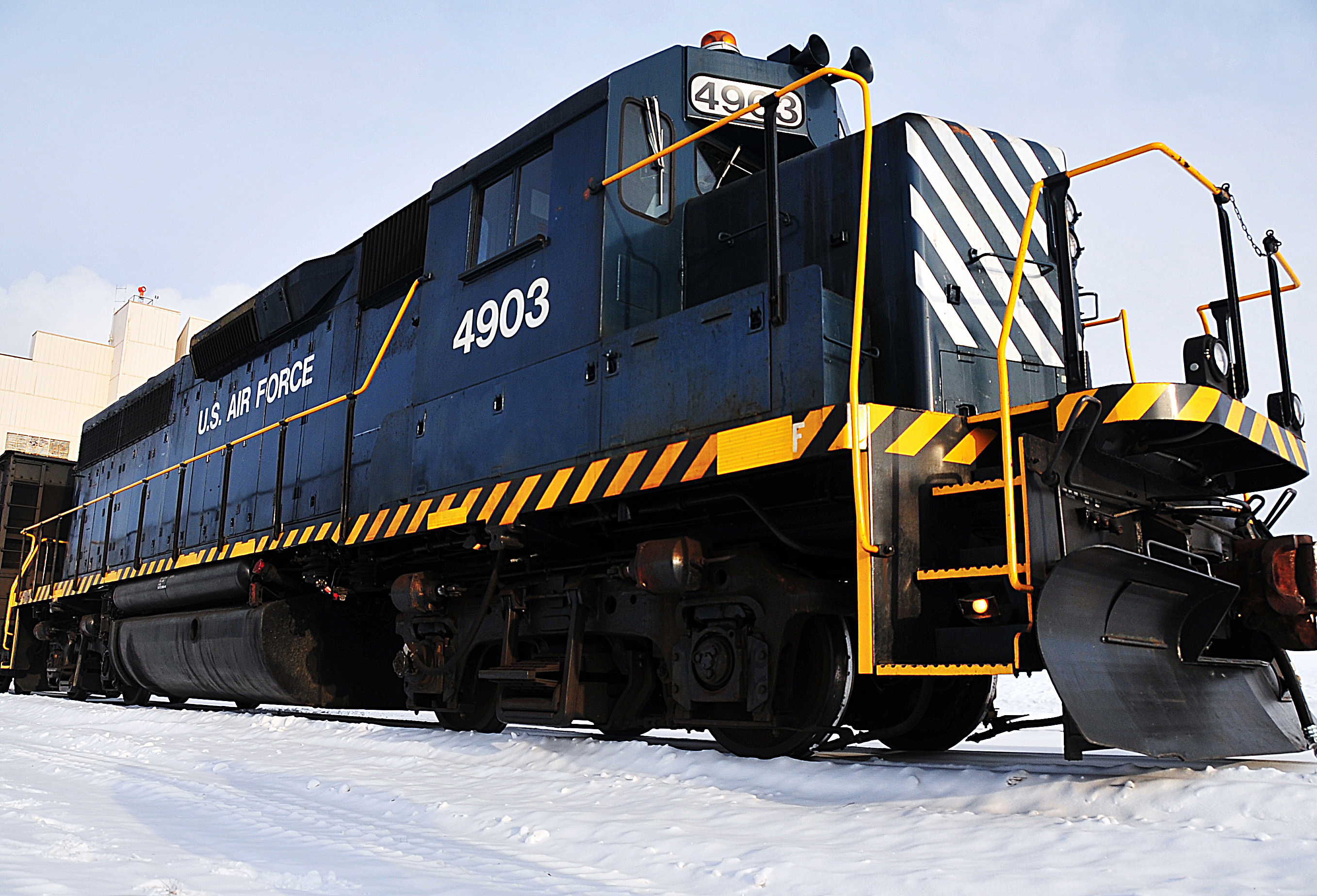 A 127 ton GP-40 Electromotive Diesel locomotive sits outside the Eielson Air Force Base central heat and power plant, Oct. 24, 2008, waiting to retrieve its next shipment of coal. The central heat and power plant owns two of these, they move all coal and rail traffic on the 11 miles of Eielson rail, making it the second largest railroad in the state.